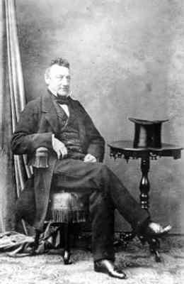 Vice admiral and member of the Dutch Parliament Jouwert Andreae